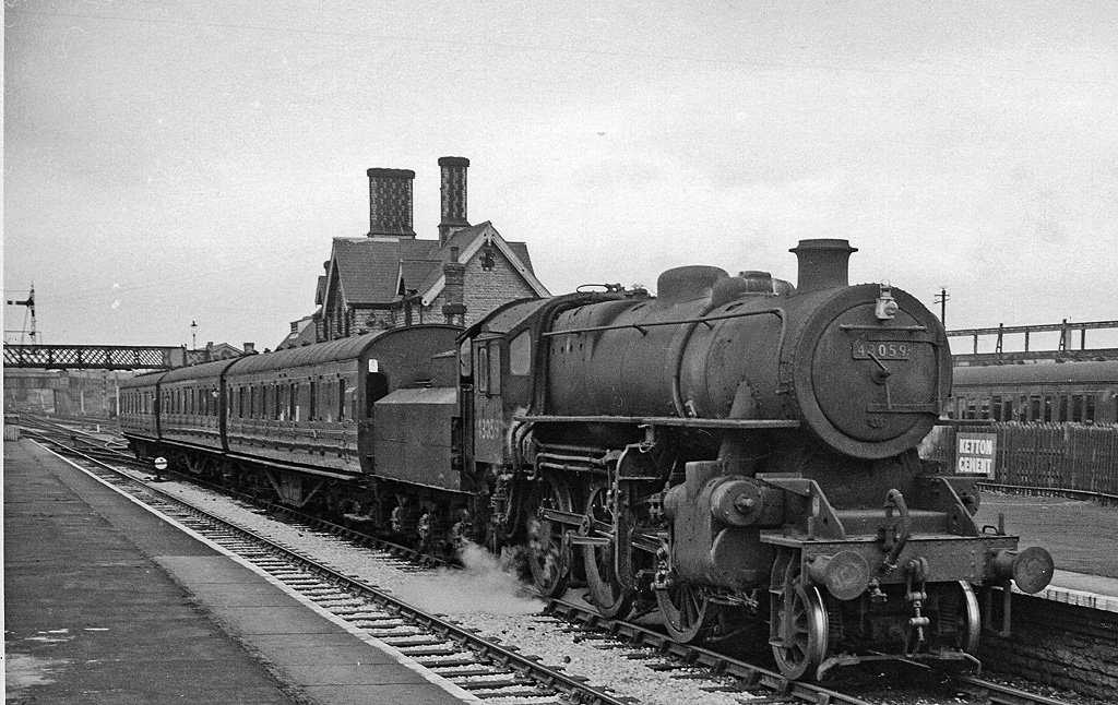 The 17.18 Nottingham (Victoria) to Derby (Friargate) service at Basford North. View westward, towards Derby; ex-Great Northern, Grantham - Notingham - Derby line. The locomotive is LMS Ivatt 4MT 2-6-0 No. 43059. See SK5443 : Basford North (former Basford & Bulwell) Station for details about the line.